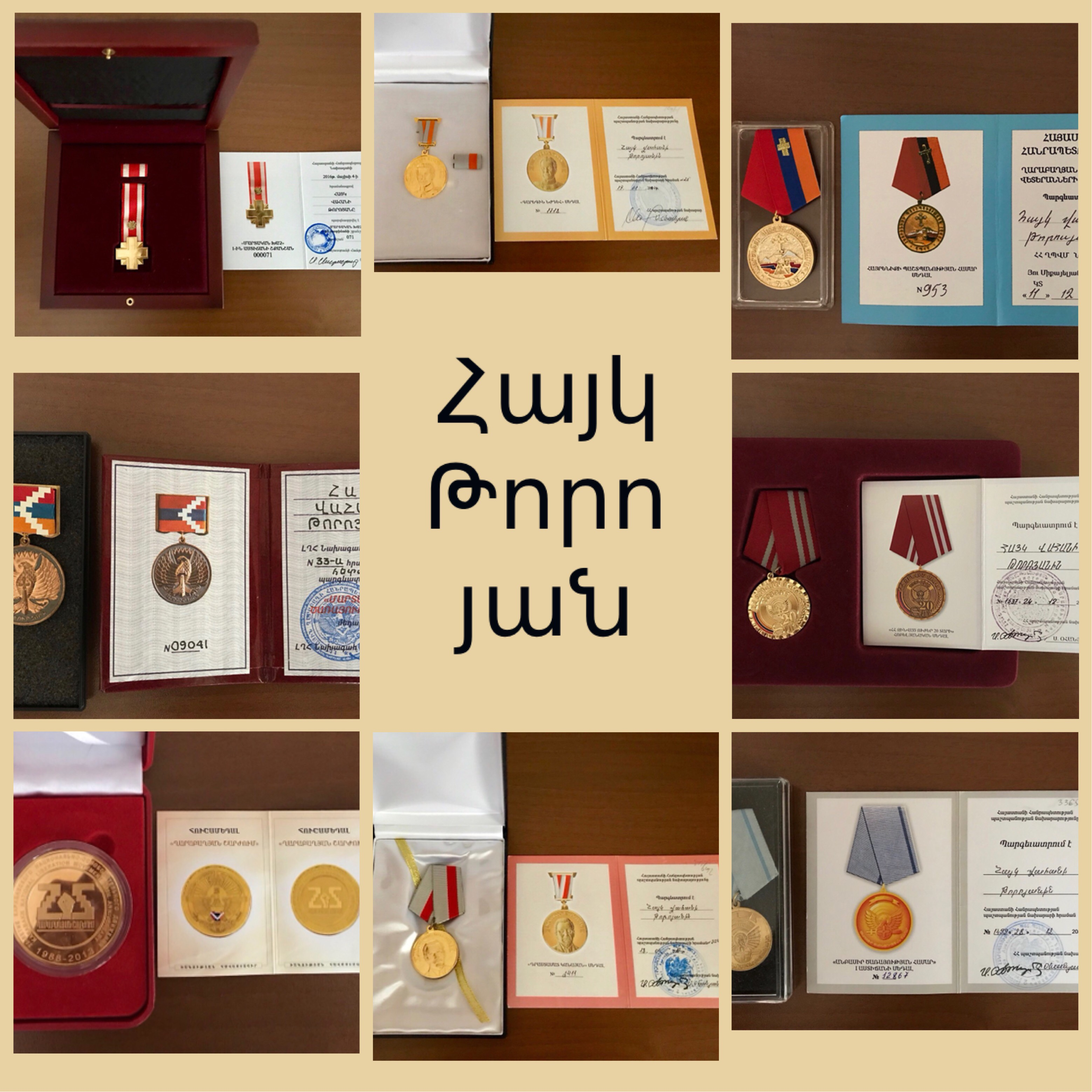 Hayki medalner